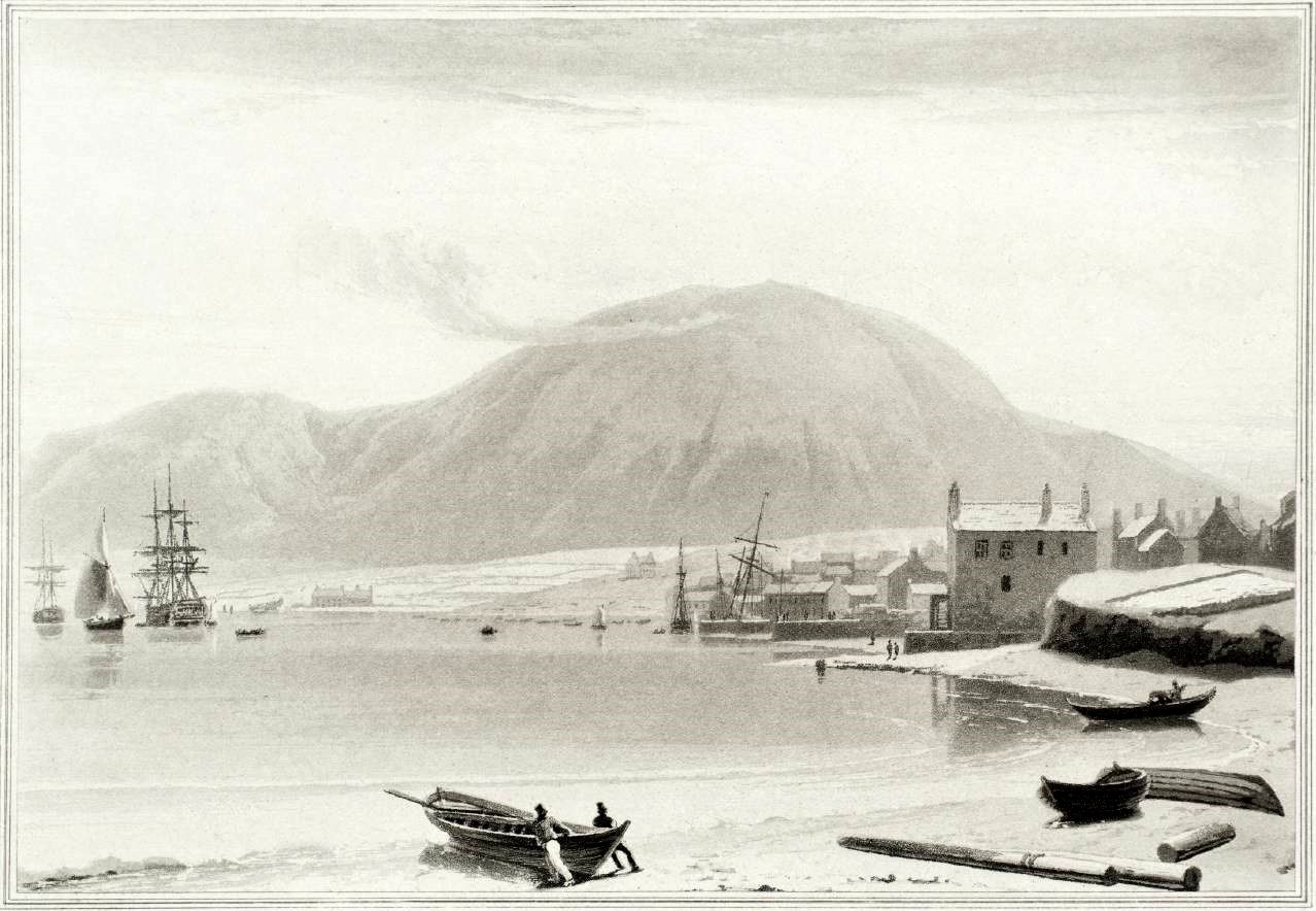 Stromness, Orkney by William Daniell (1769-1837)